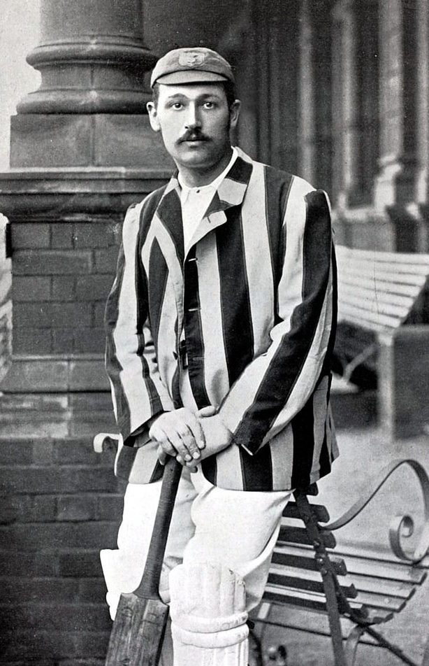 Scan of cricketer Levi Wright